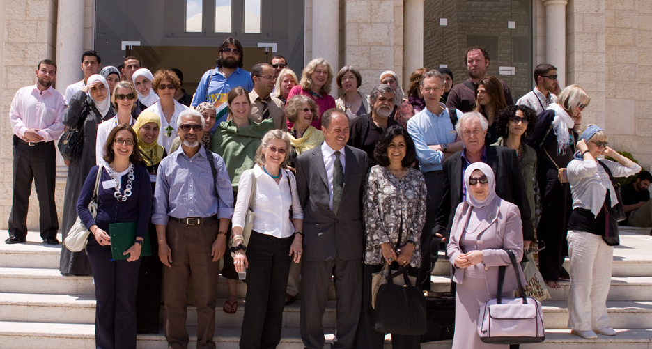 The 2009 Palestine Festival of Literature at Hebron University